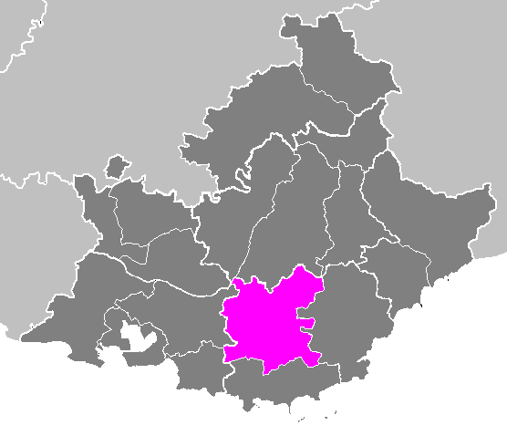 Maps of arrondissements and cantons of France: Arrondissement de Brignoles.PNG